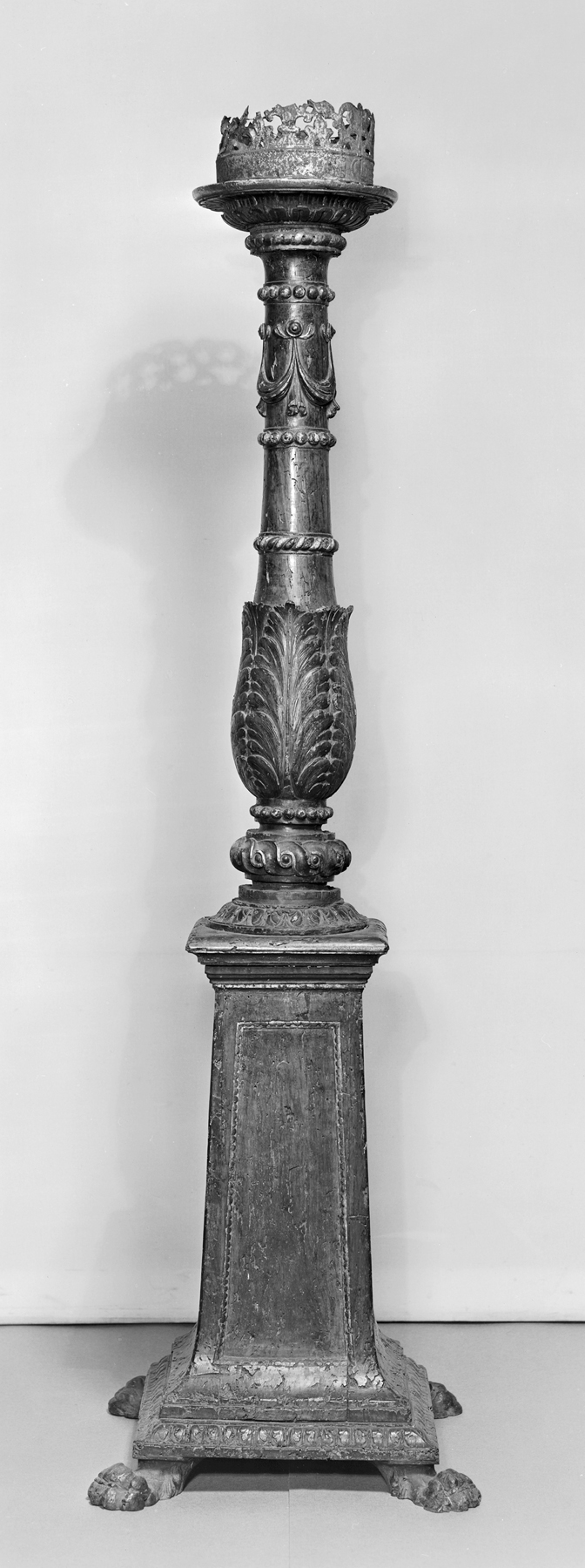 A "torchère" is a tall, ornamental candlestick.